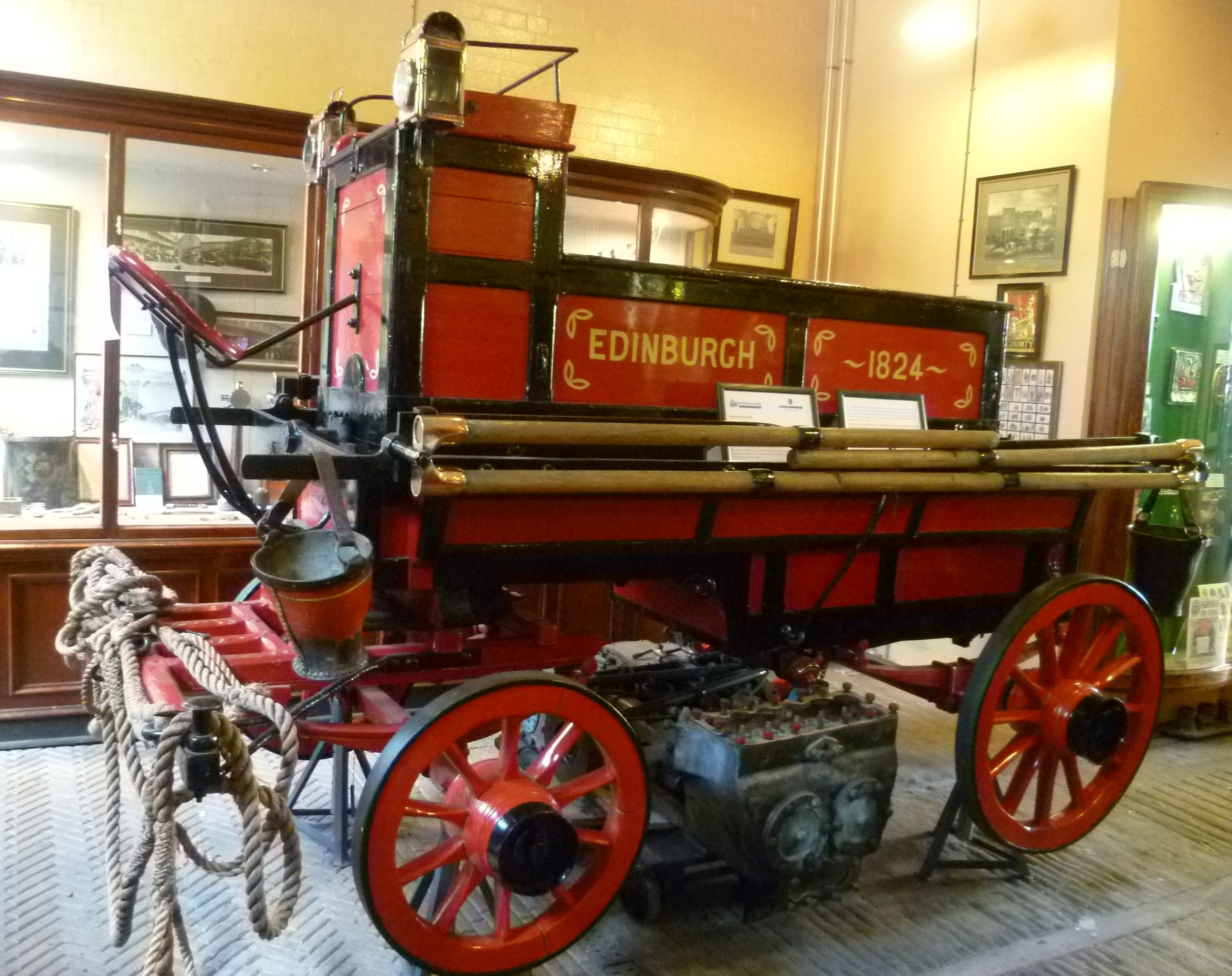 A manually drawn water-pump from the year of the founding of the Edinburgh Fire Establishment, Britain's first muncipal fire brigade, led by James Braidwood, its first Master of Fire Engines. It can be seen in the Museum of Fire of the Lothian and Borders Fire and Rescue Service in Edinburgh.